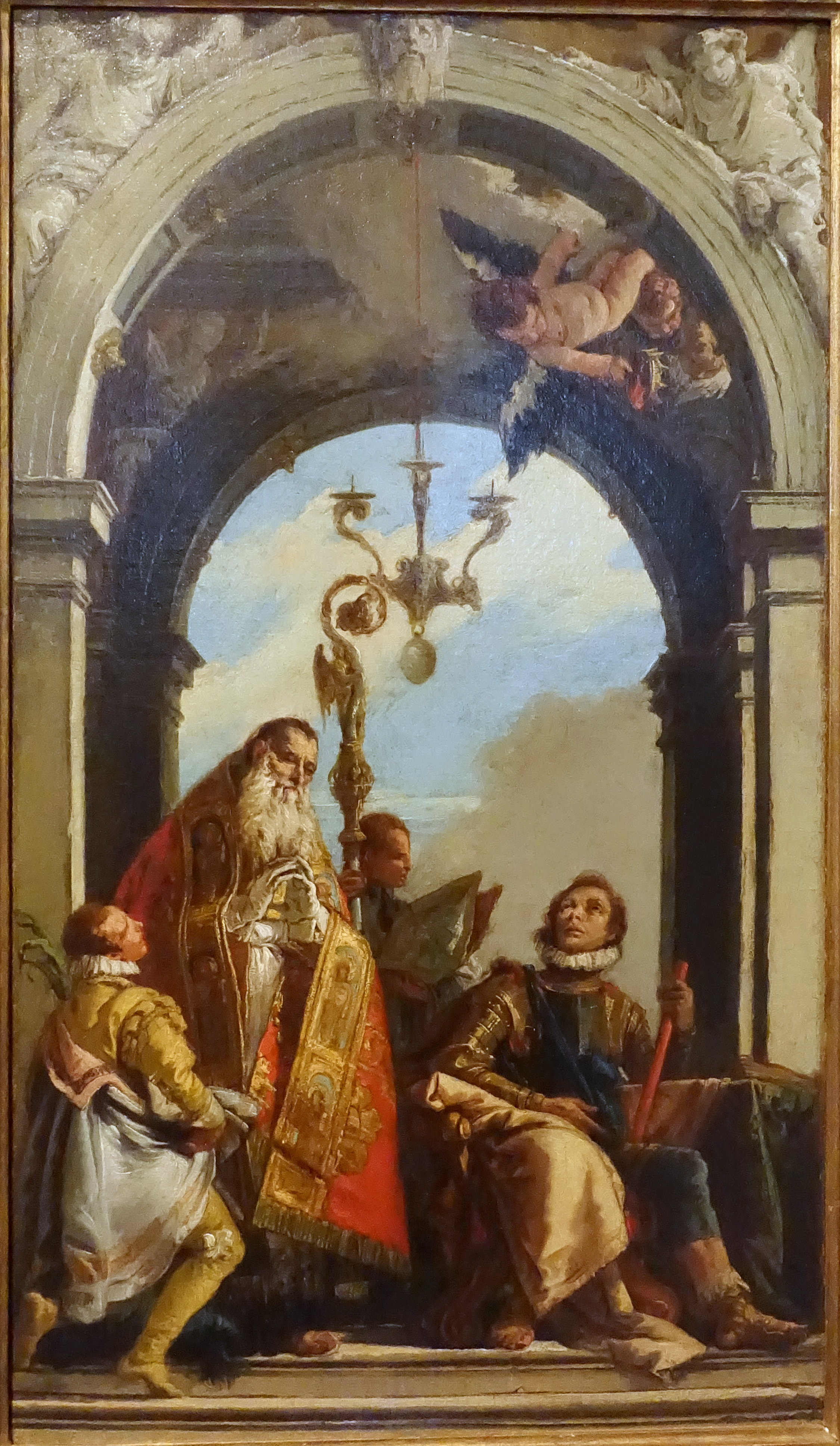 Exhibit in the Krannert Art Museum, University of Illinois at Urbana-Champaign - Urbana-Champaign, Illinois, USA. This work is old enough so that it is in the public domain.